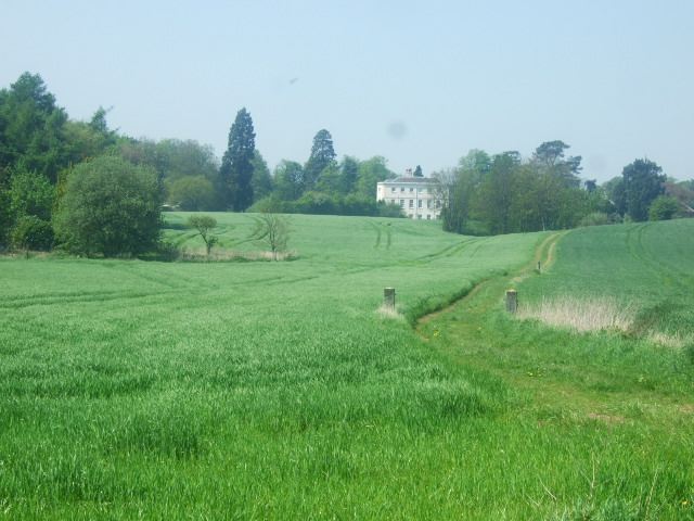 Styche Hall Looking up to Styche Hall from the farm track.